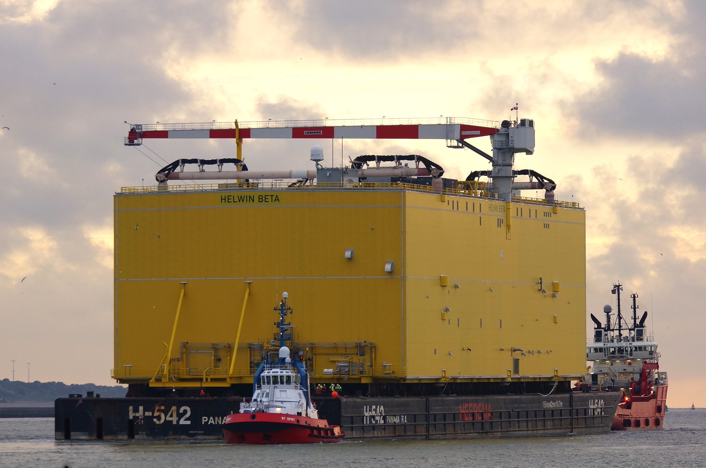 Transport of HelWin beta HVDC converter platform (topside), Nieuwe Waterweg, NL